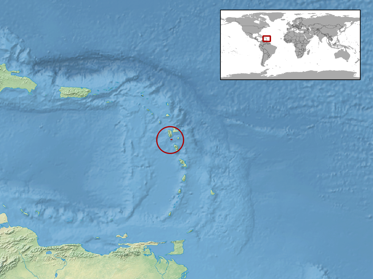 geographic distribution of Alsophis sanctonum (Native: Guadeloupe)